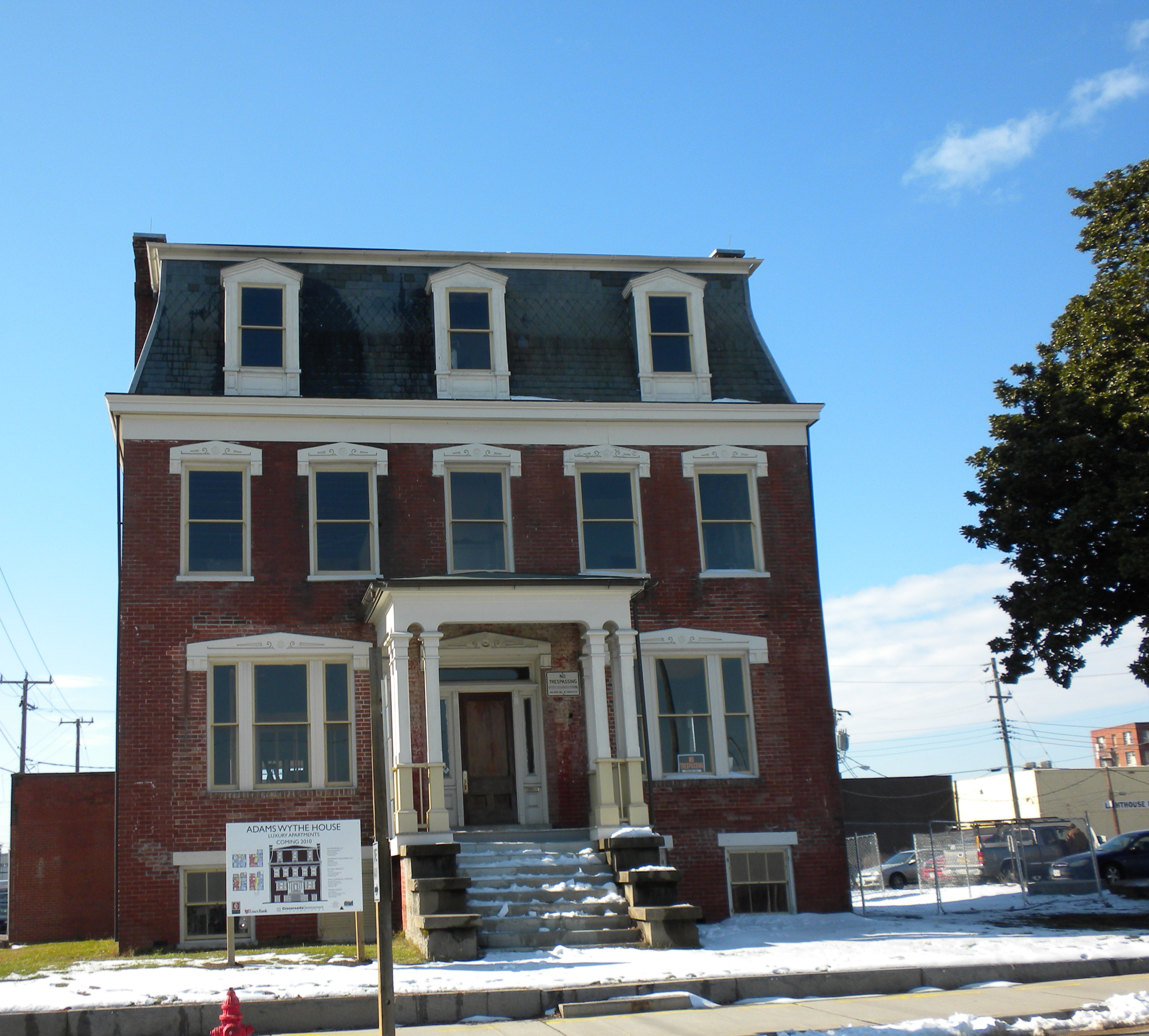 Cohen House on Corner of Adams and Wythe Streets, Petersburg, VA. On NRHP. I donate this photo to the public domain.